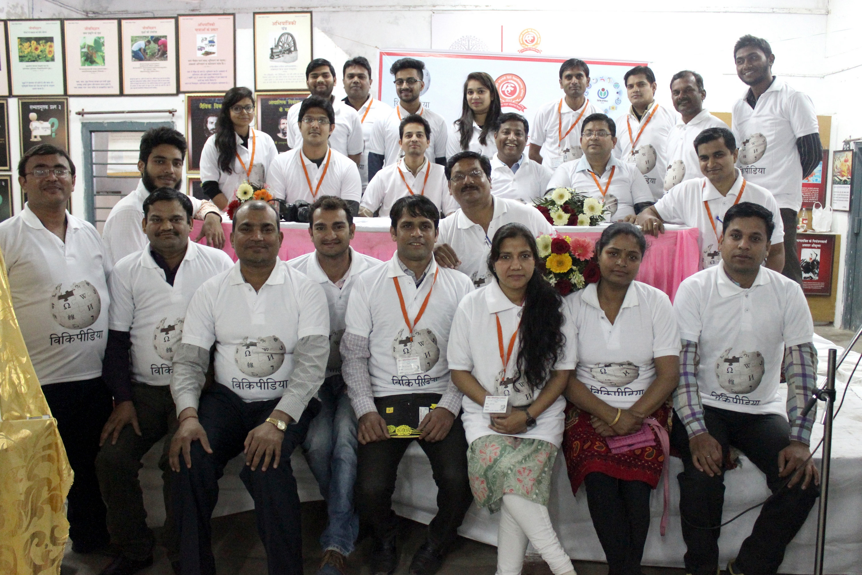 Hindi Wikipedia Sammelan 2017 Wikipedians